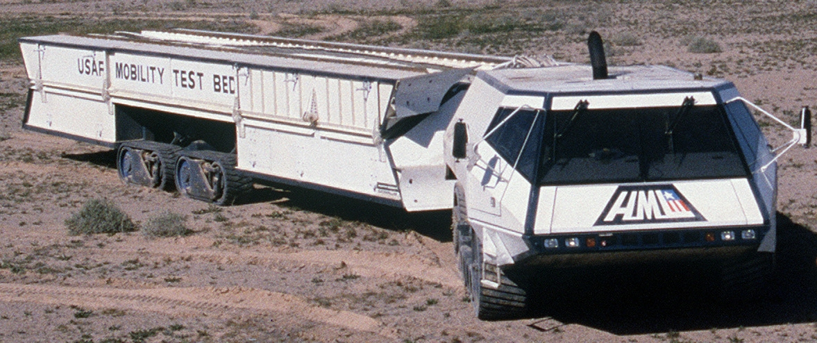 Martin Marietta small intercontinental ballistic missile hard mobile launcher